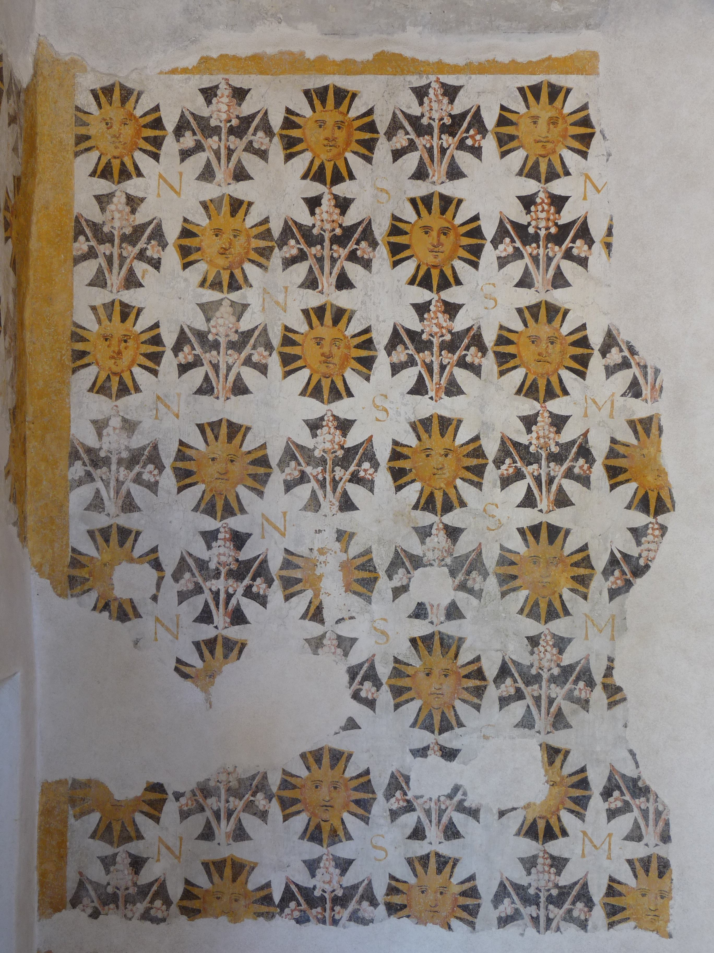 Trento (Italy): part of the encaustic decoration on the lower part of the walls in the main salon at the first floor of Palazzo Roccabruna ("Sala del Conte di Luna"). Letters "N S M" stands for "Nec Sorte Movebor" (fate won't have any power on me)